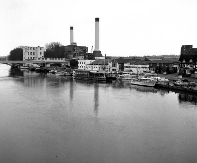 Turk's boatyard and Kingston Power Station, River Thames